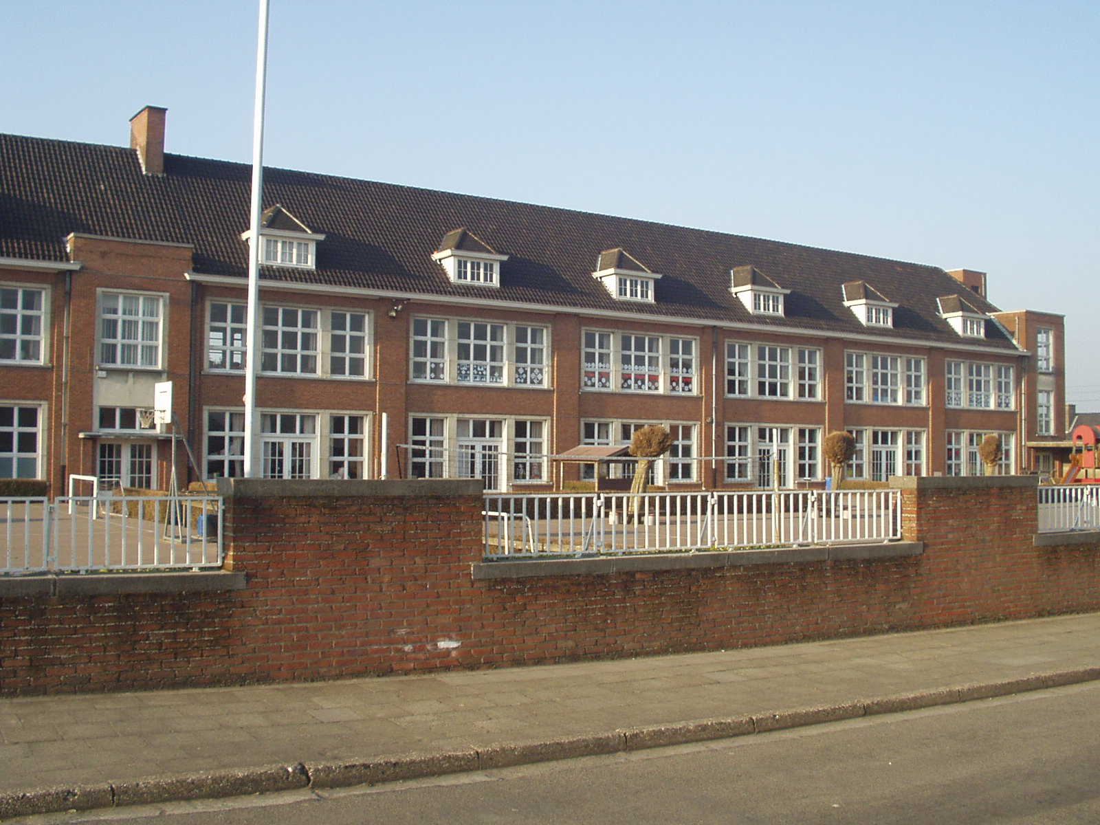 "Vrije Basisschool Aarsele-Kanegem" (primary school) in Aarsele. Aarsele, Tielt, West Flanders, Belgium